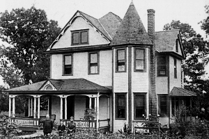 George Austin McHenry House in McHenry, Mississippi, USA. Constructed from 1895 to 1901 in Late Victorian architectural style with Queen Anne influence. Added to National Register of Historic Places in 1988. George A. McHenry with his son and wife in front of house.